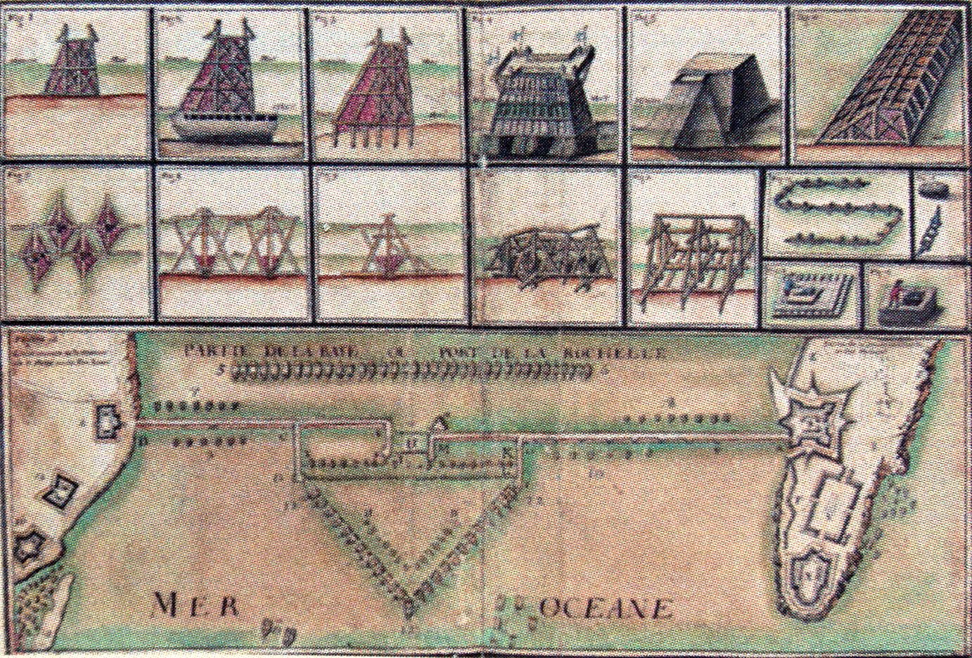 Metezeau_seawall